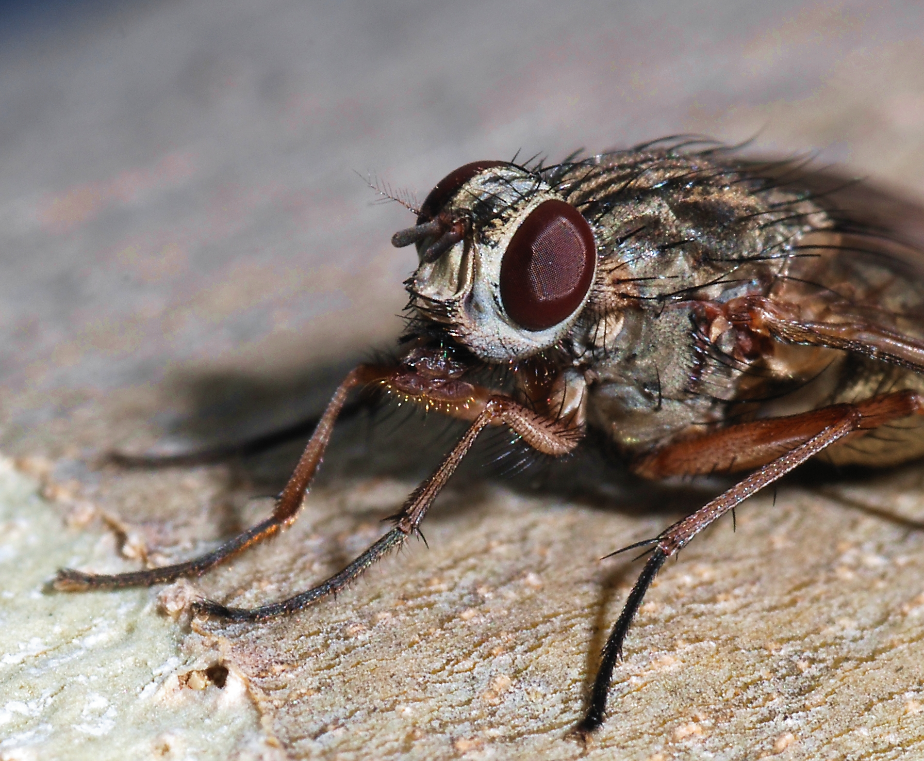 A fly of the Muscidae family (Phaonia scutellata )